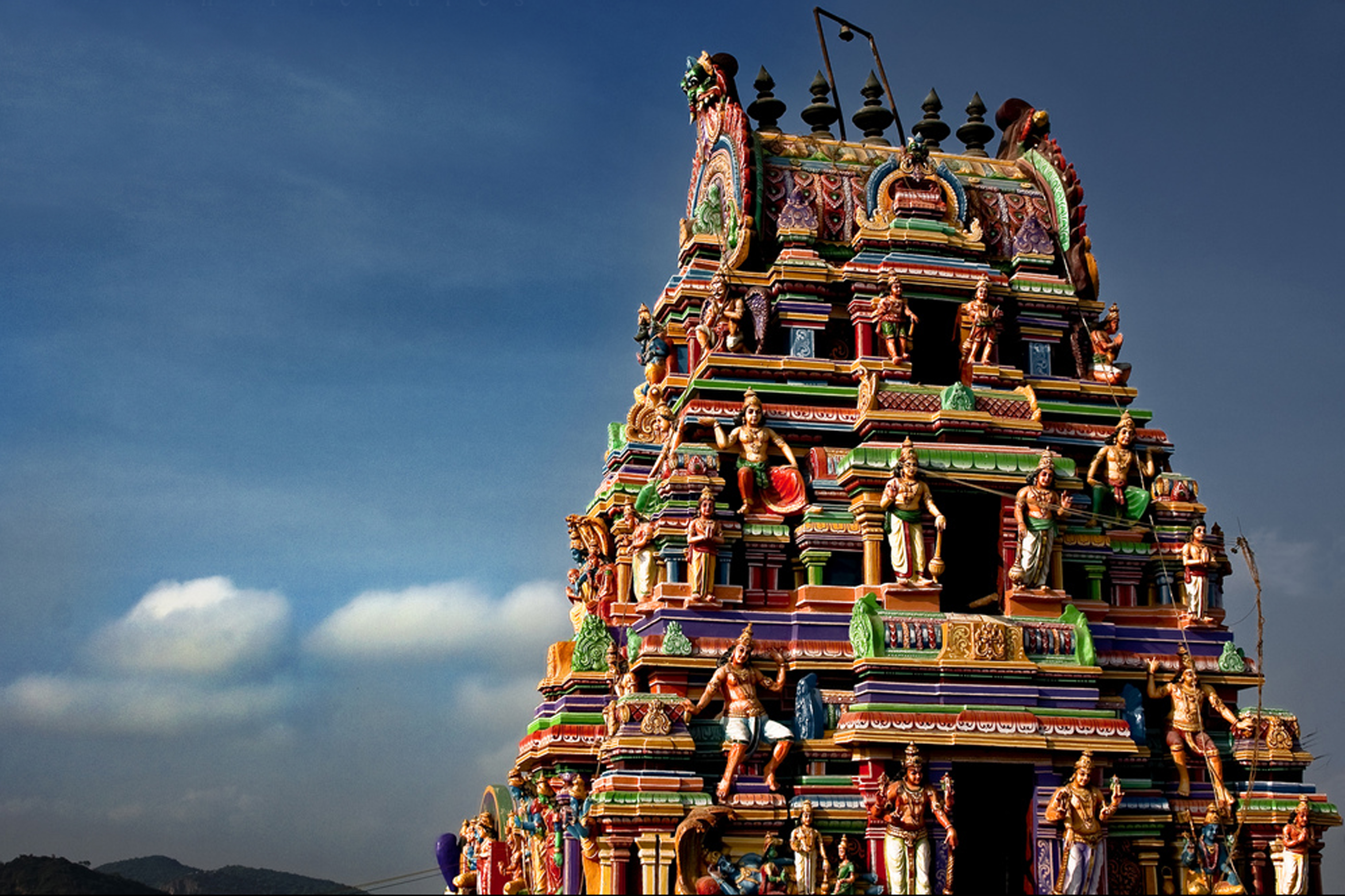 Shot of newly renovated temple tower at Thiruneermalai, Chennai